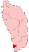 Map of Dominica showing Saint Luke parish.